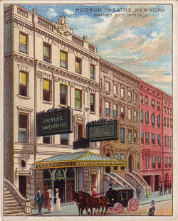 Cigarette Trading Card of the "Hudson Theatre" (now Hudson Theatre at the Millenium Hotel Broadway, 139-141 West 44th Street / 135-144 West 145th Street, Manhattan, New York City) Publisher: Between the Acts Little Cigars; Theatres Old and New Series Size: 7.8 x 6.3 cm